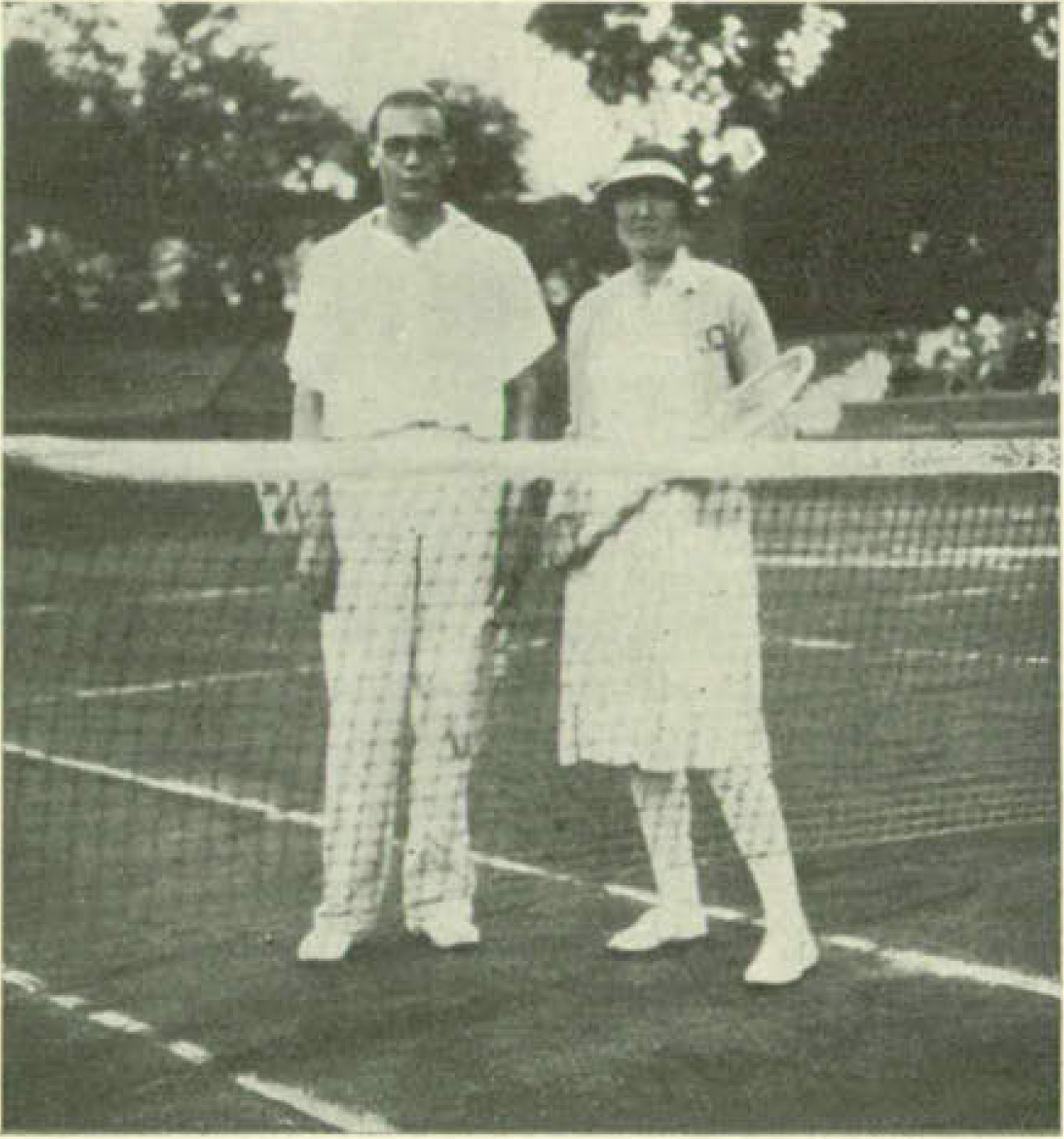 Georges Glasser and Simone Barbier at the 1930 Hungarian International Tennis Championships, published in Tennisz és Golf , 1930